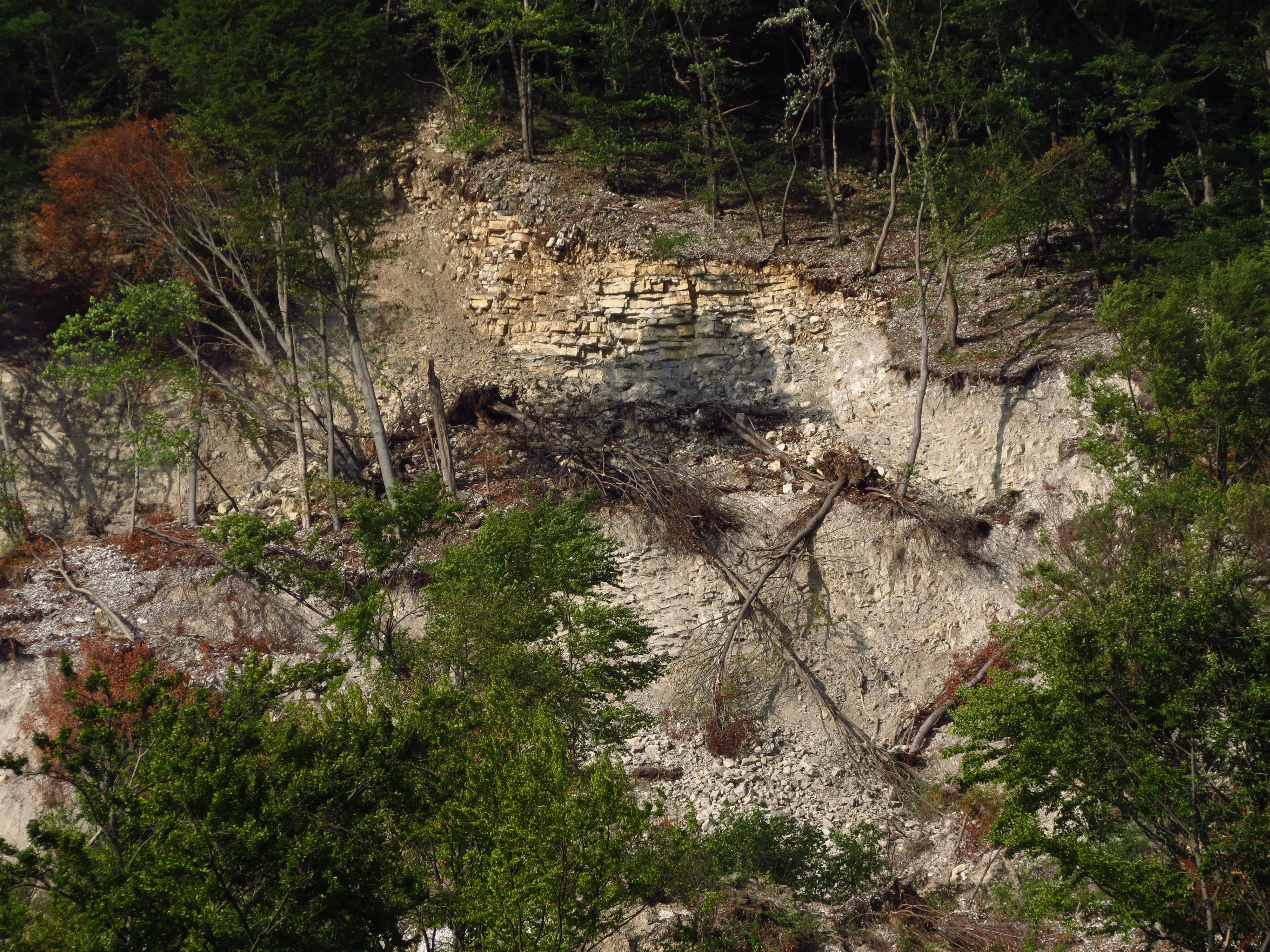 Landslide at the Albtrauf in Öschingen (Mössingen), Swabian Alb, Germany.